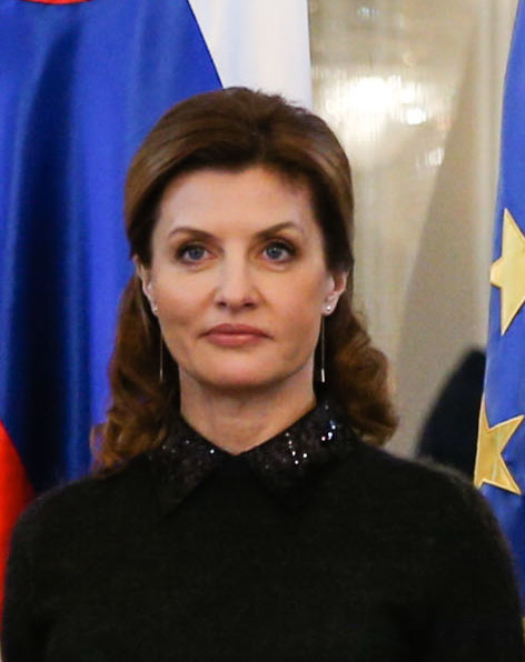 Maryna Poroshenko in Slovenia in 2016.